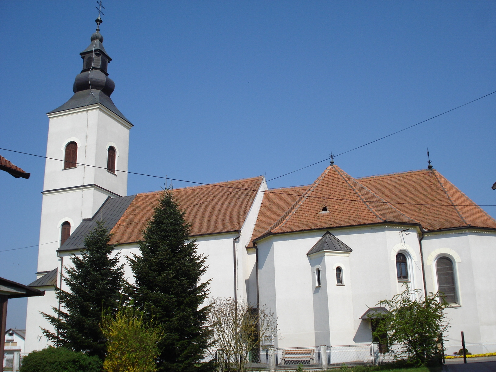 Church of the Assumption of the Blessed Virgin Mary in Belica, Medjimurje County, Croatia